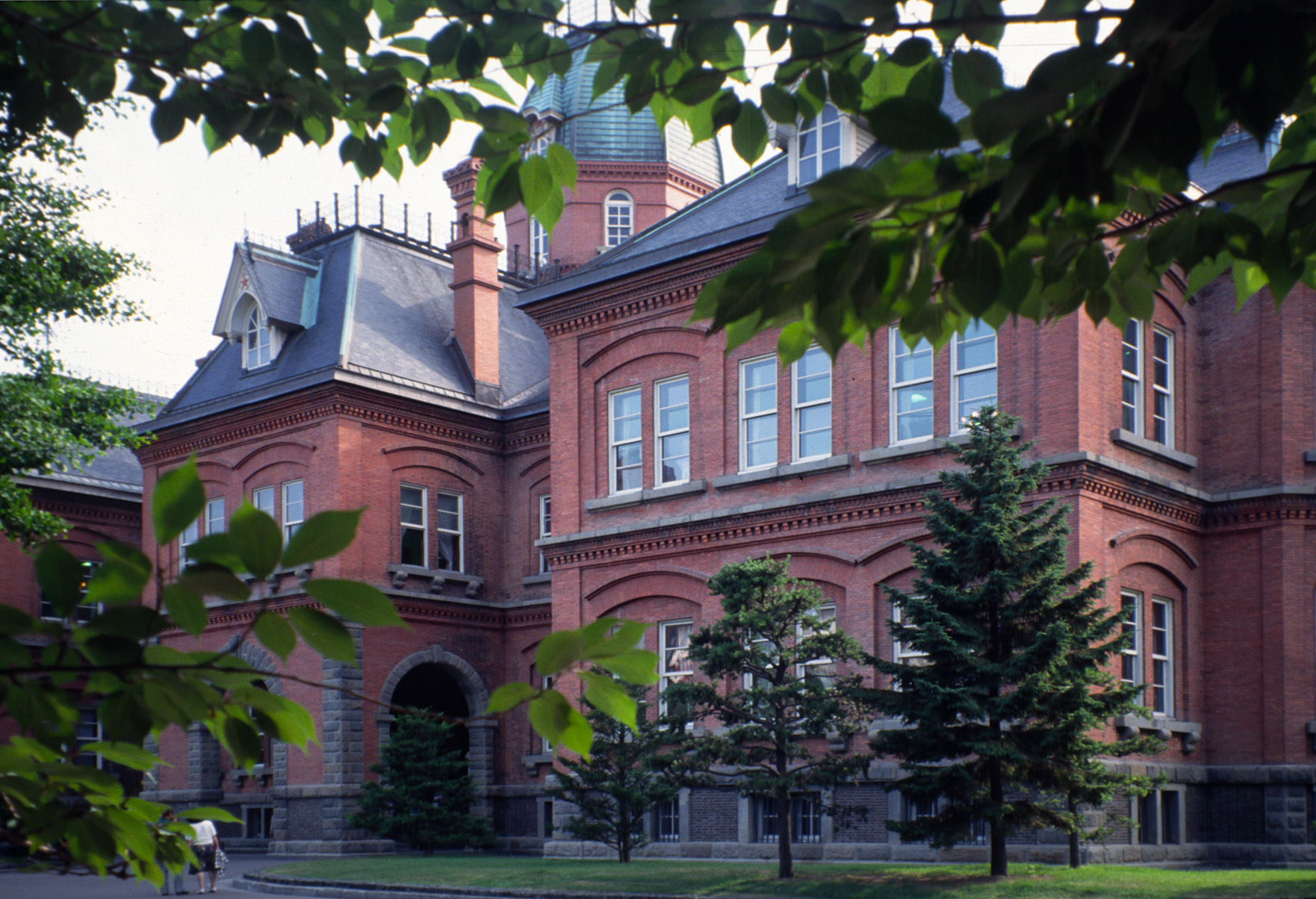 Hokkaidō Prefecture former Main Office (Red Brick Office) Address: Kita 3 jō Nishi 5 chome (North 3 West 5), Chūō ward, Sapporo, Hokkaidō, Japan. Built in 1888 as the main office of the prefecture, it has been well known as 'Red Brick Office' (Aka Renga Chōsha) in Hokkaidō. Designated as an Important Cultural Property of Japan since 1969.